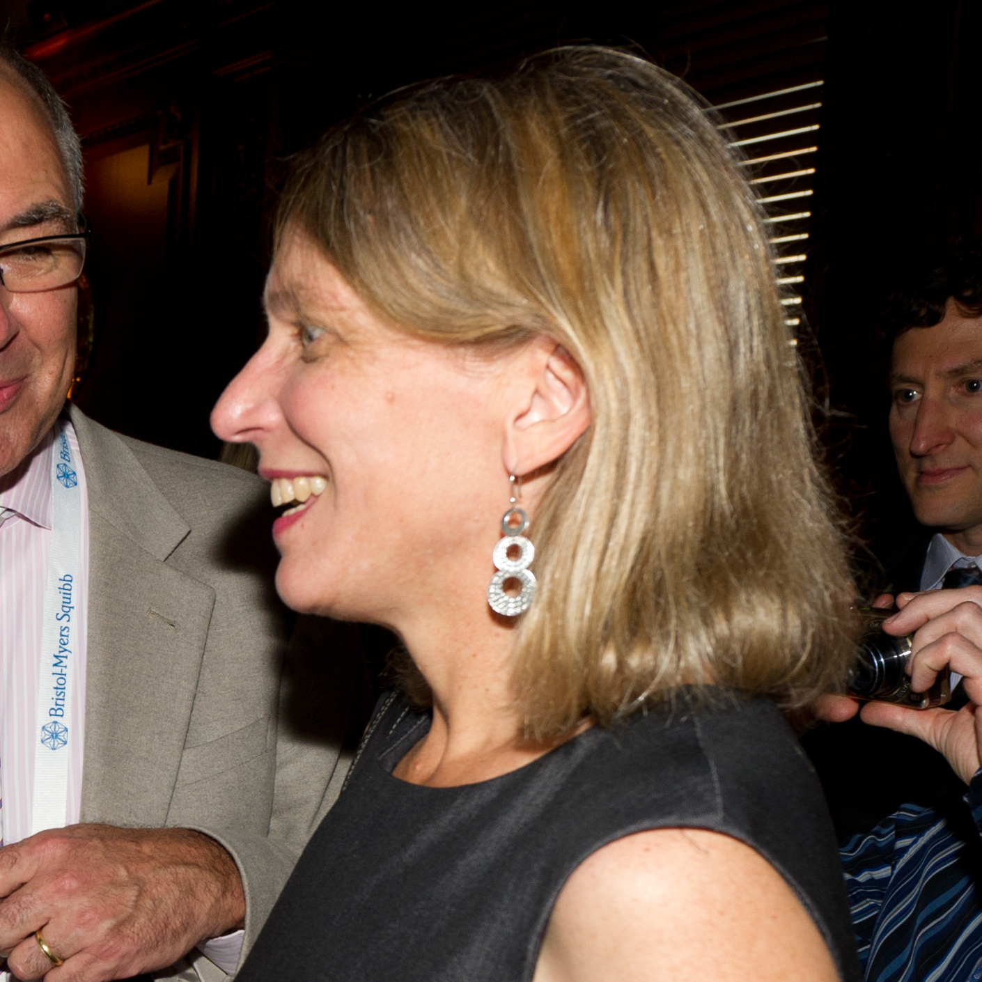 Congresswoman Pelosi greets San Franciscans Dr. Diane Havlir, chief of the HIV/AIDS division at San Francisco General Hospital and Co-chair for the International AIDS Conference, and Dr. Paul Volberding, one of the world's leading AIDS experts, at a reception for the conference